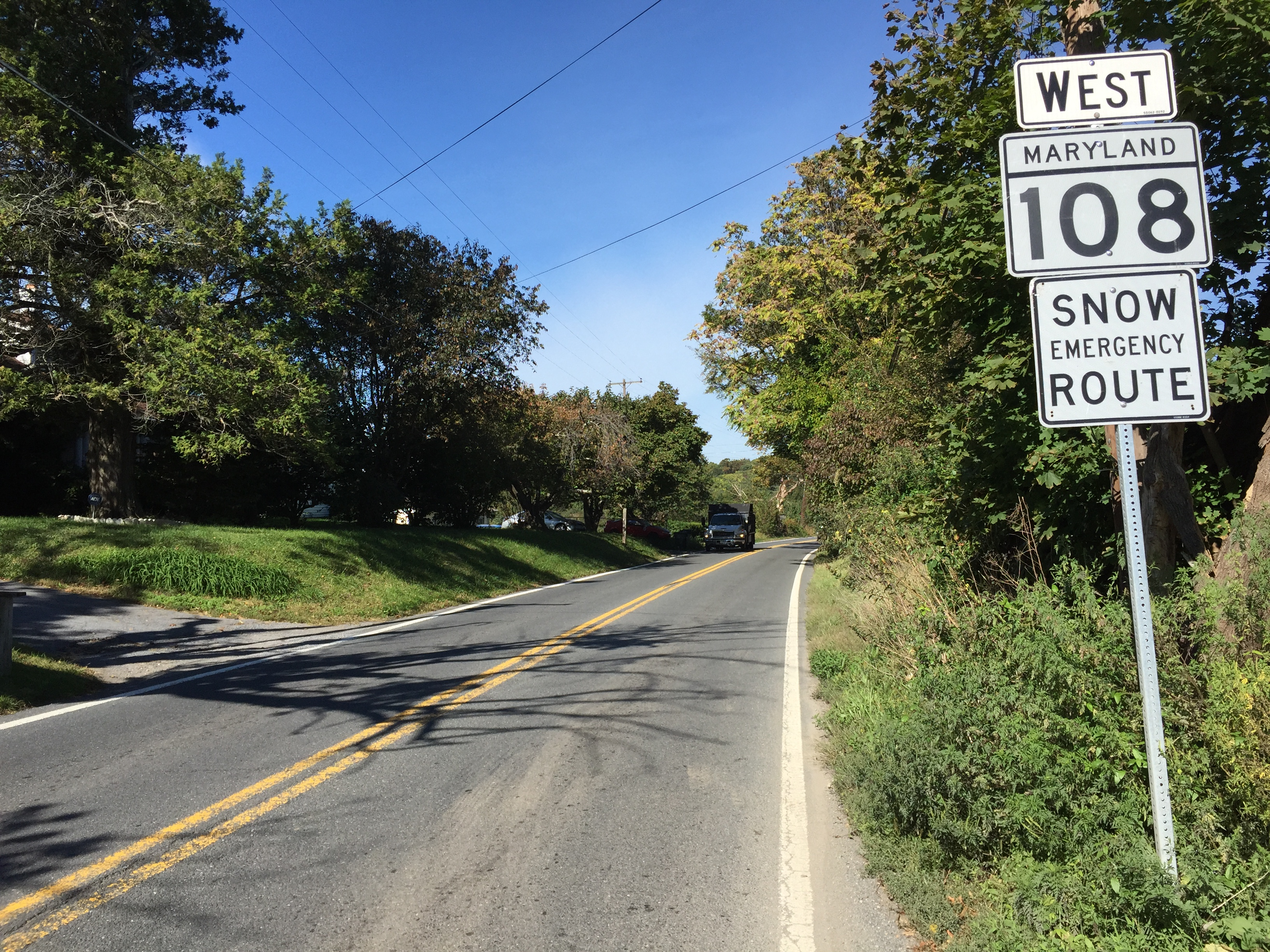 View west along Maryland State Route 108 (Damascus Road) at Maryland State Route 650 in Etchison, Montgomery County, Maryland